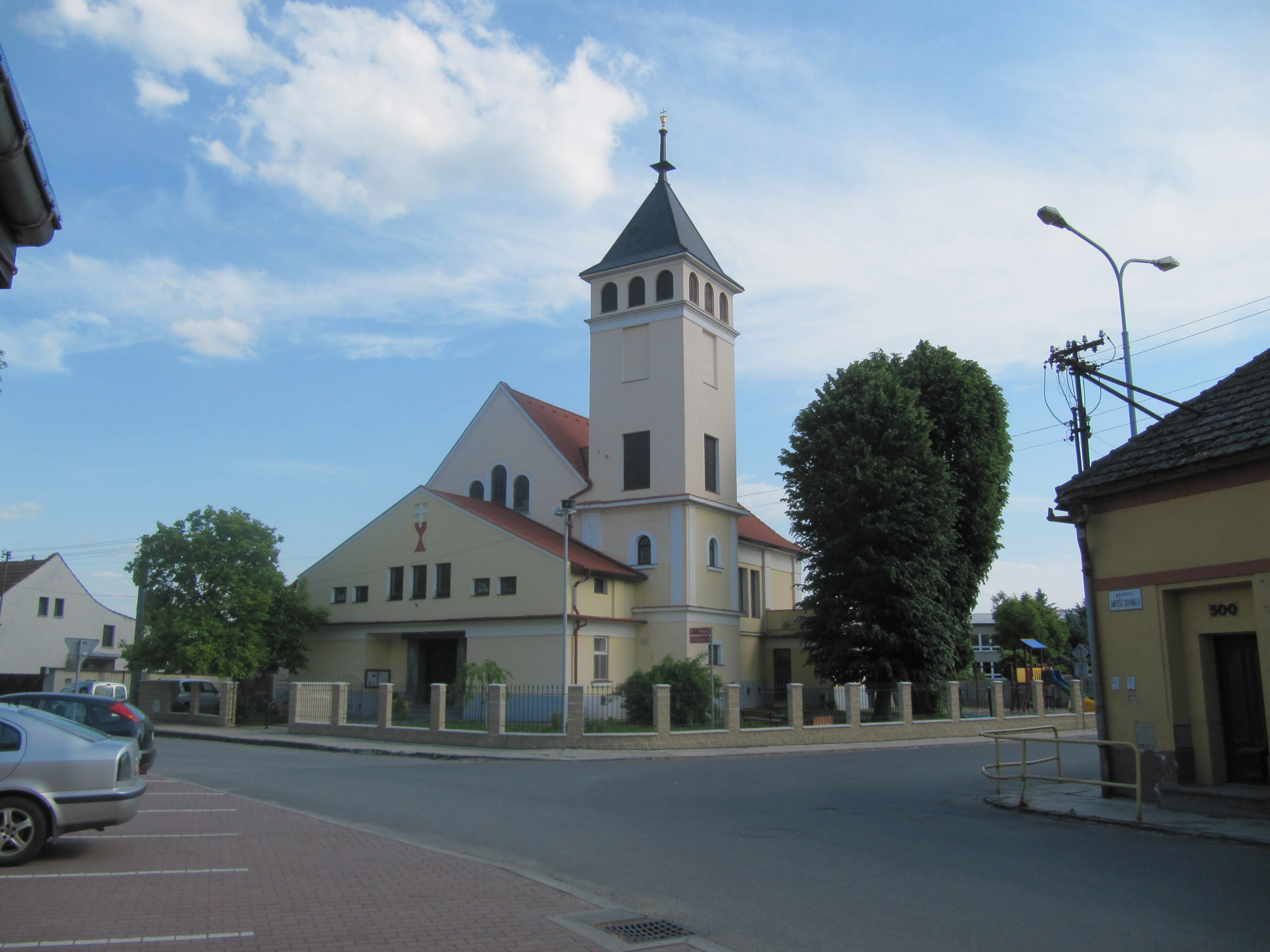 Kvasice in Kroměříž District, Czech Republic. Hus Congregation.